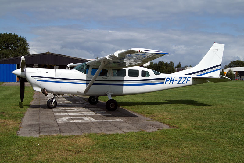 This is a Soloy turbine-conversion Cessna 207-A standing at Hoogeveen airport.